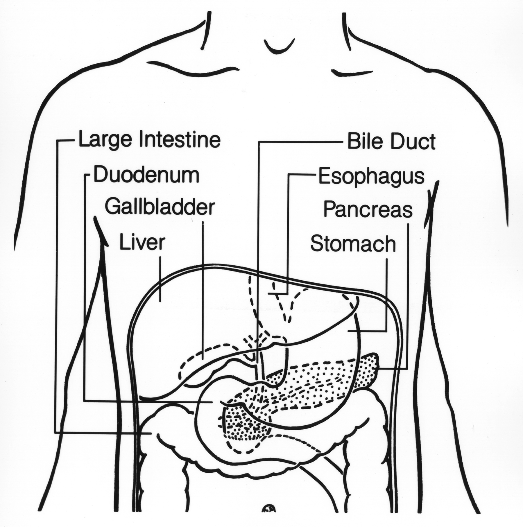 Title Digestive Tract (Upper) Description Line drawing showing large intestine, duodenum, gall bladder, liver, bile duct, esophagus, pancreas and stomach. Topics/Categories Anatomy -- Digestive/Gastrointestinal System Type B&W, Medical Illustration Source National Cancer Institute